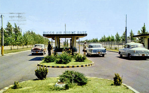 Biggs AFB front gate postcard - late 1950s